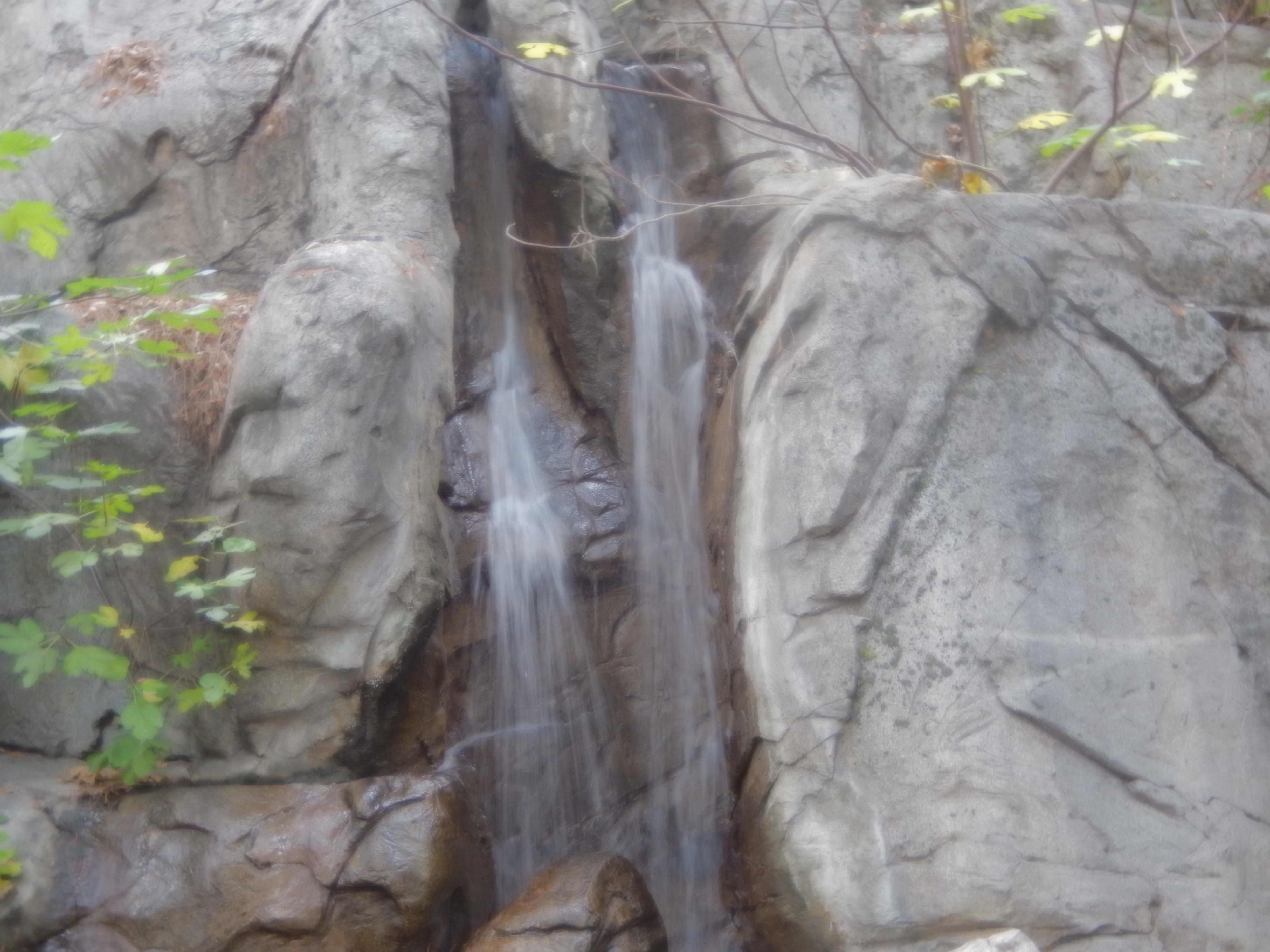 I took photo with Nikon camera of cascade outside the Autry Center museum in Griffith Park, Los Angeles.